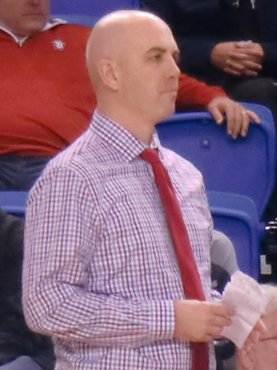 University of South Dakota men's basketball head coach Craig Smith during a game at San Jose State on December 17, 2017.